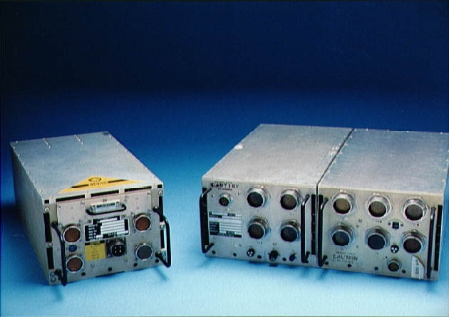 NASA Space Shuttle General Purpose Computers (GPC) IBM AP-101 "The shuttle GPCs were upgraded in 1991, and the system that used to take two boxes, right, could run on one, left."